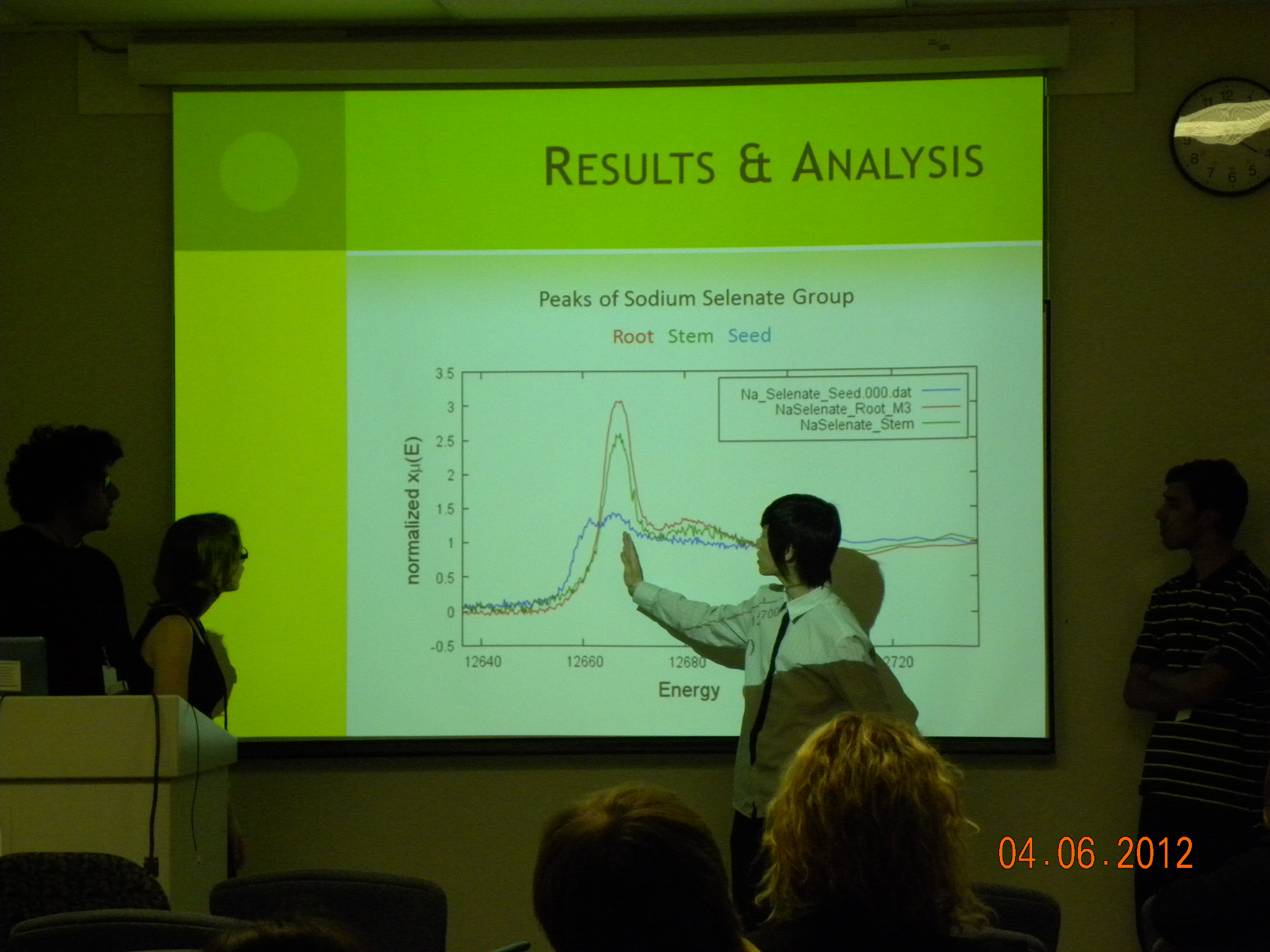 Students from Evan Hardy school present their data in a seminar at the Canadian light Source synchrotron